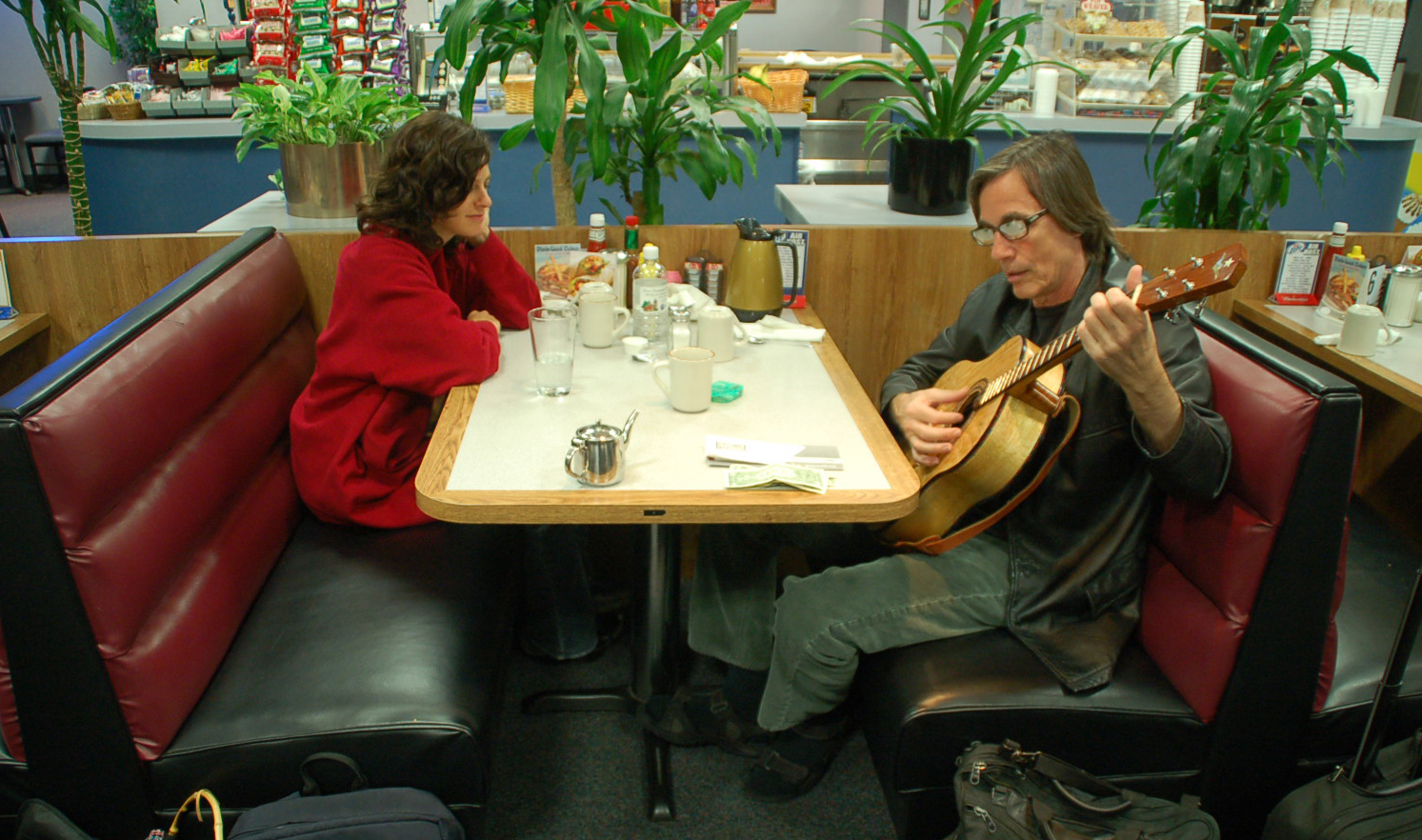 Jackson Browne with Louise Goffin at the Green Bay airport coffee shop after performing as part of the Steel Bridge Festival organized by songwriter Pat MacDonald - to preserve the historic Sturgeon Bay bridge - Sturgeon Bay WI